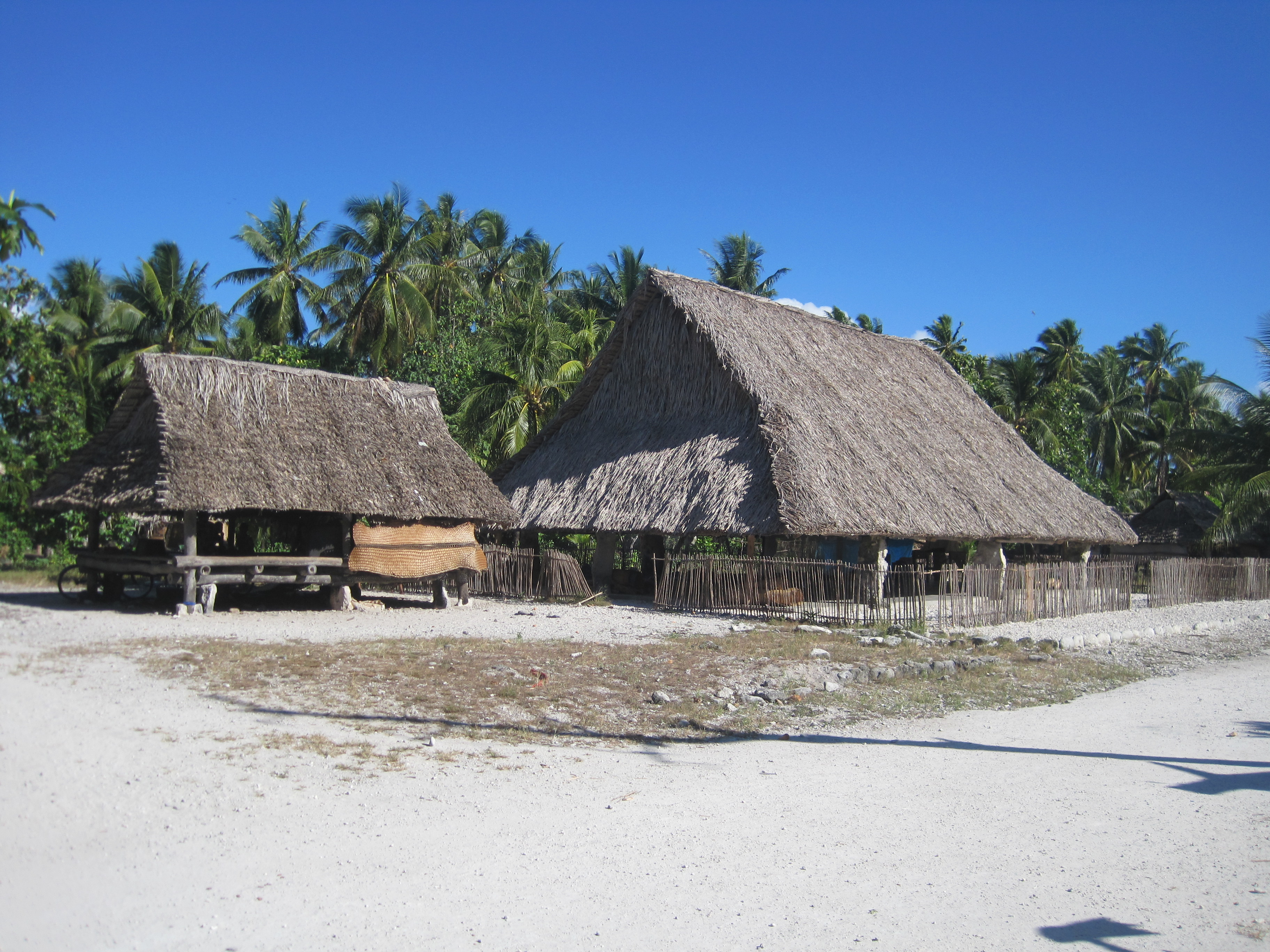 Maneaba in Marakei atoll, Kiribati